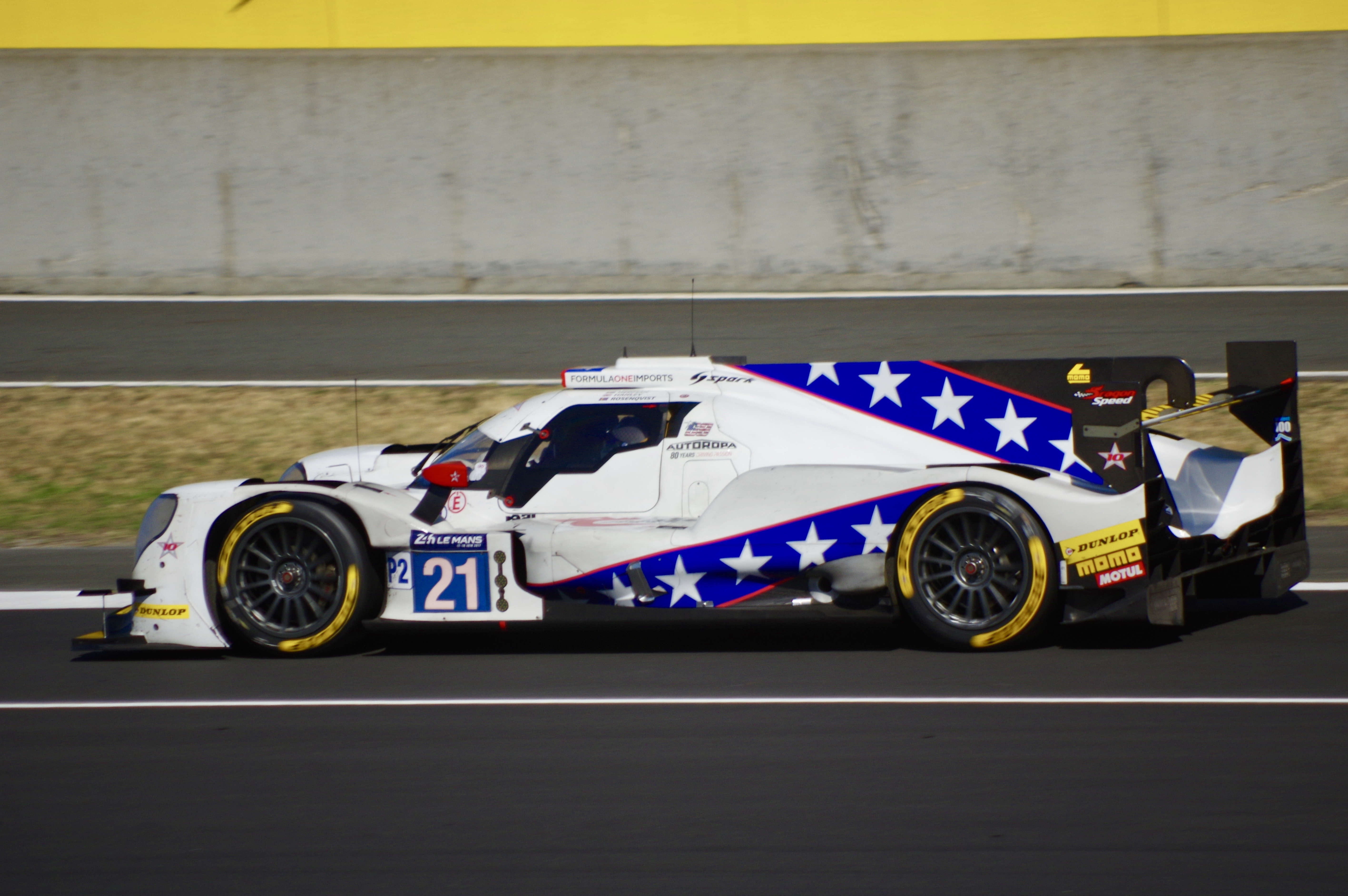 Dragon Speed - 10 Star's Oreca 07 Gibson Driven by Henrik Hedman, Felix Rosenqvist and Ben Hanley